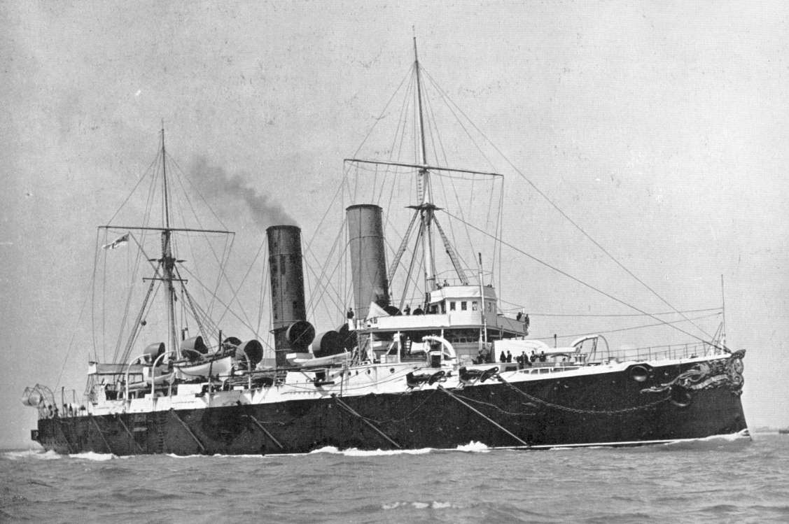 Photograph of British protected cruiser HMS Blenheim.